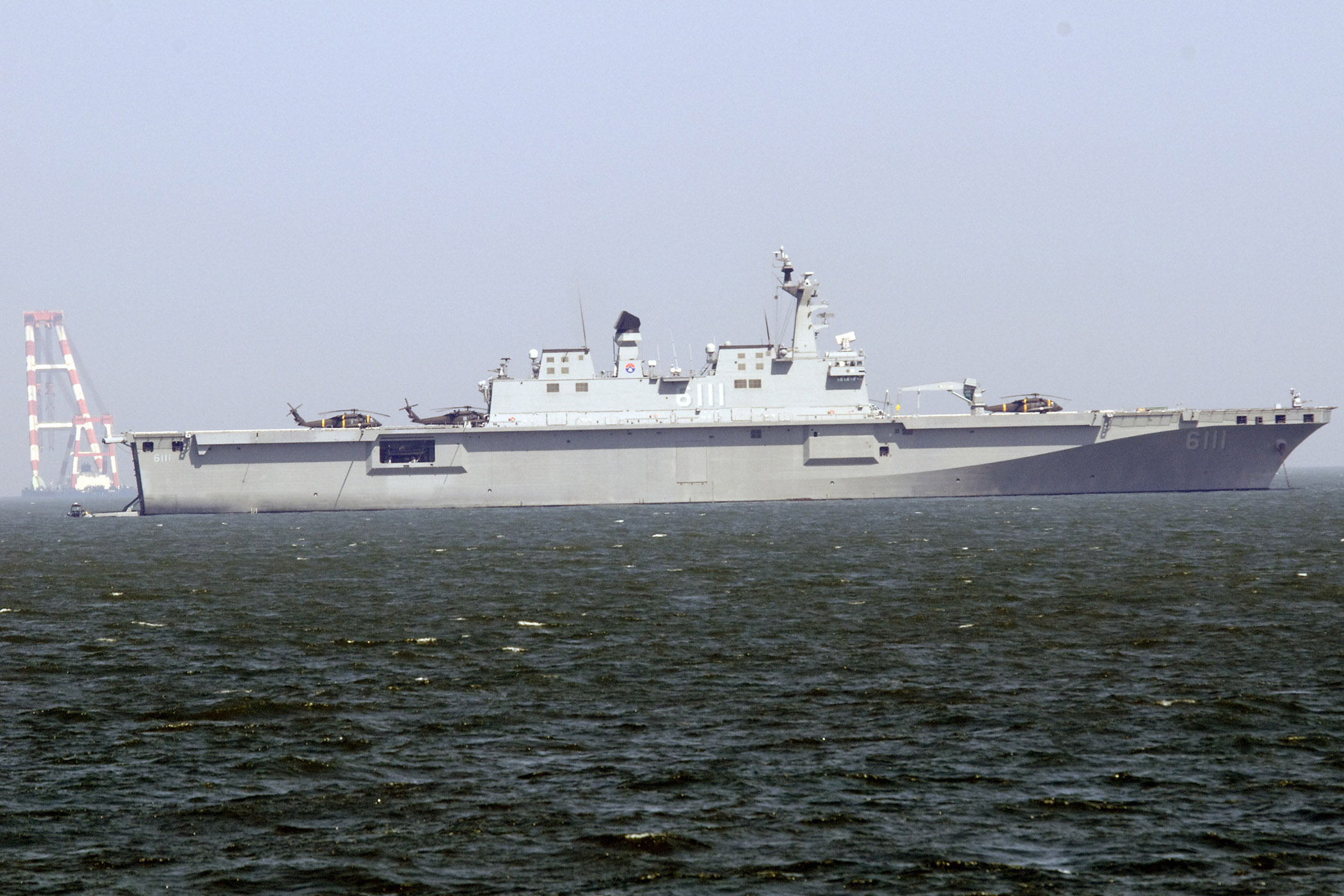 YELLOW SEA (April 7, 2010) The Republic of Korea (ROK) amphibious landing ship ROKS Dokdo (LPH 6111) passes the recovery and salvage site off the starboard side of the Military Sealift Command rescue and salvage ship USNS Salvor (T-ARS 52). U.S. Navy forces are supporting the ROK in recovery and salvage efforts for the ROK Navy frigate Cheonan, which sank March 27 in the Yellow Sea near the western sea border with North Korea. The forces include the USNS Salvor, USS Harpers Ferry, and USS Curtis Wilbur. (U.S. Navy photo by Mass Communication Specialist 2nd Class Byron C. Linder)